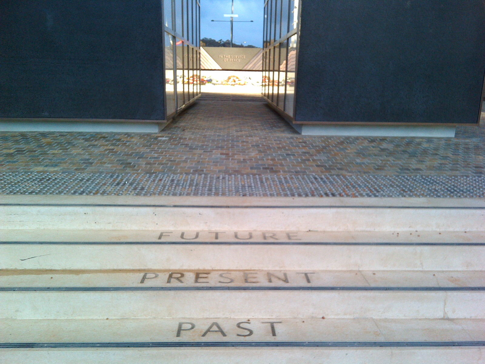 A view of the Peacekeepers Memorial, Canberra, showing the steps marked Past, Present and Future